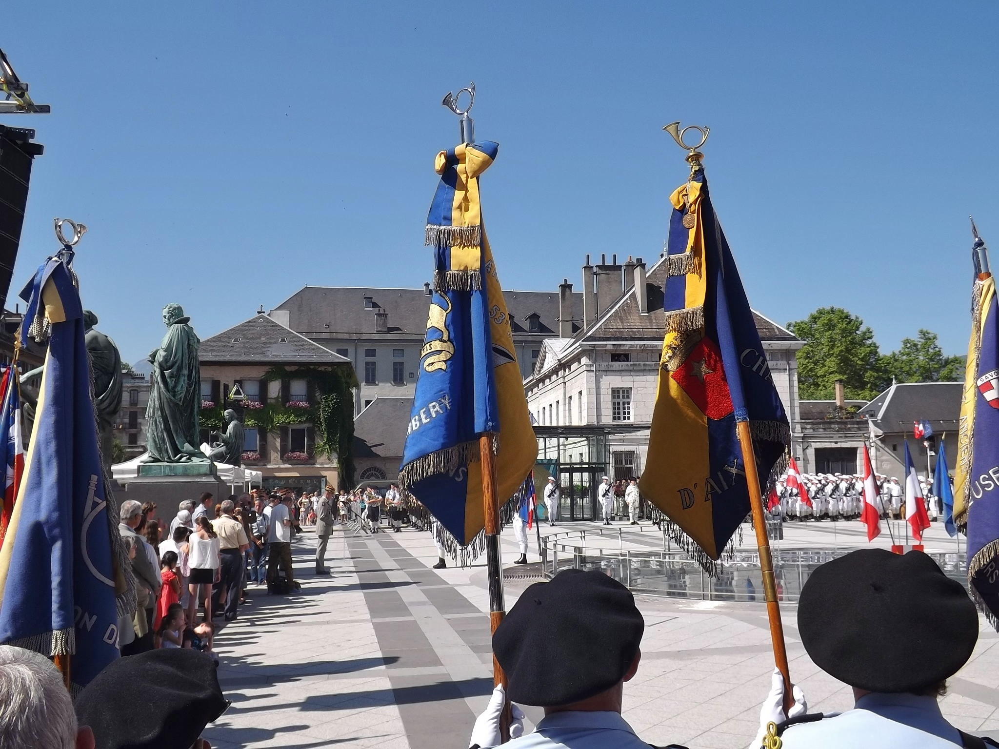 Sight of the standard-bearers of the 13ème Bataillon de chasseurs alpins (elite mountain infantery), during the change of command ceremony, in Chambéry, Savoie, France.